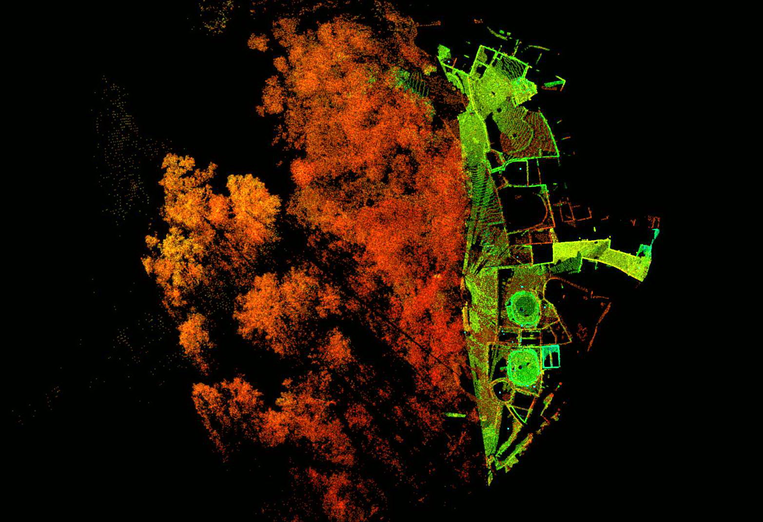 Plan of entire Spruce Tree House from above, cut from a laser scan. Spruce Tree House measures 66m (216ft) in width and is 27m (89ft) deep. The sandstone masonry/adobe mortar structures here, and at most of the other cliff dwellings, show no standardized central plan. Rather, they are adapted to the individual topography of each location.